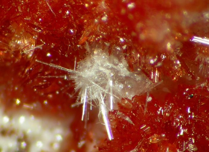 Tiptopite, Montgomeryite Locality: Tip Top Mine (Tip Top pegmatite), Fourmile, Custer District, Custer County, South Dakota, USA (Locality at ) Acicular xls of Tiptopite on red Montgomeryite. Field of view 4 mm. Specimen and photo Leon Hupperichs.